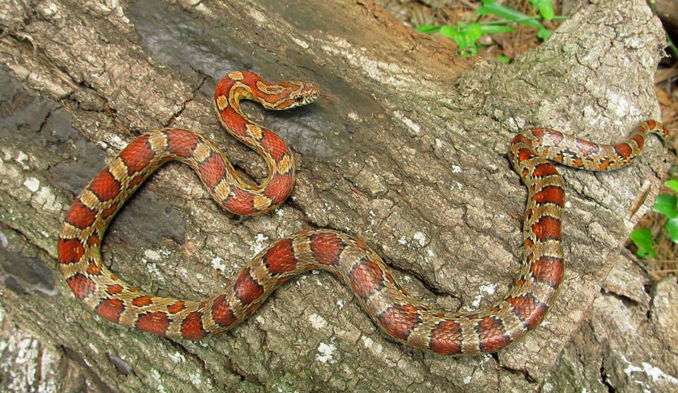 Corn Snake Adult